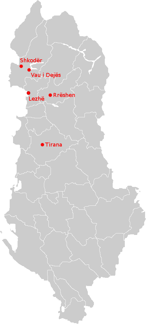 Based on Image:BlankMap-Albania2.92.png, this map shows the location of the Roman Catholic Diocese in Albania